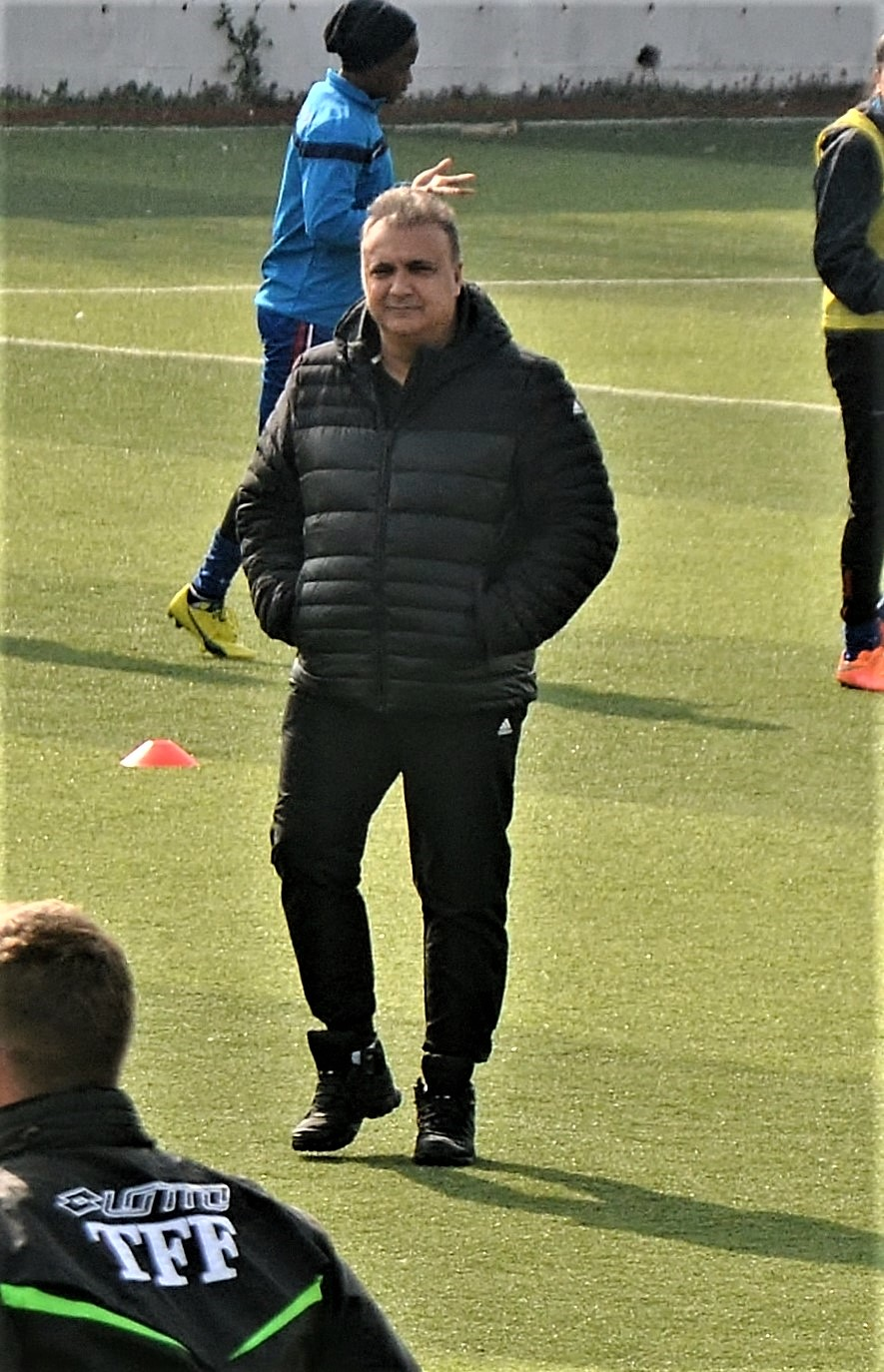 Taner Öner, manager of Ataşehir Belediyespor in the 2017-18 Turkish Women's First Football Leagye